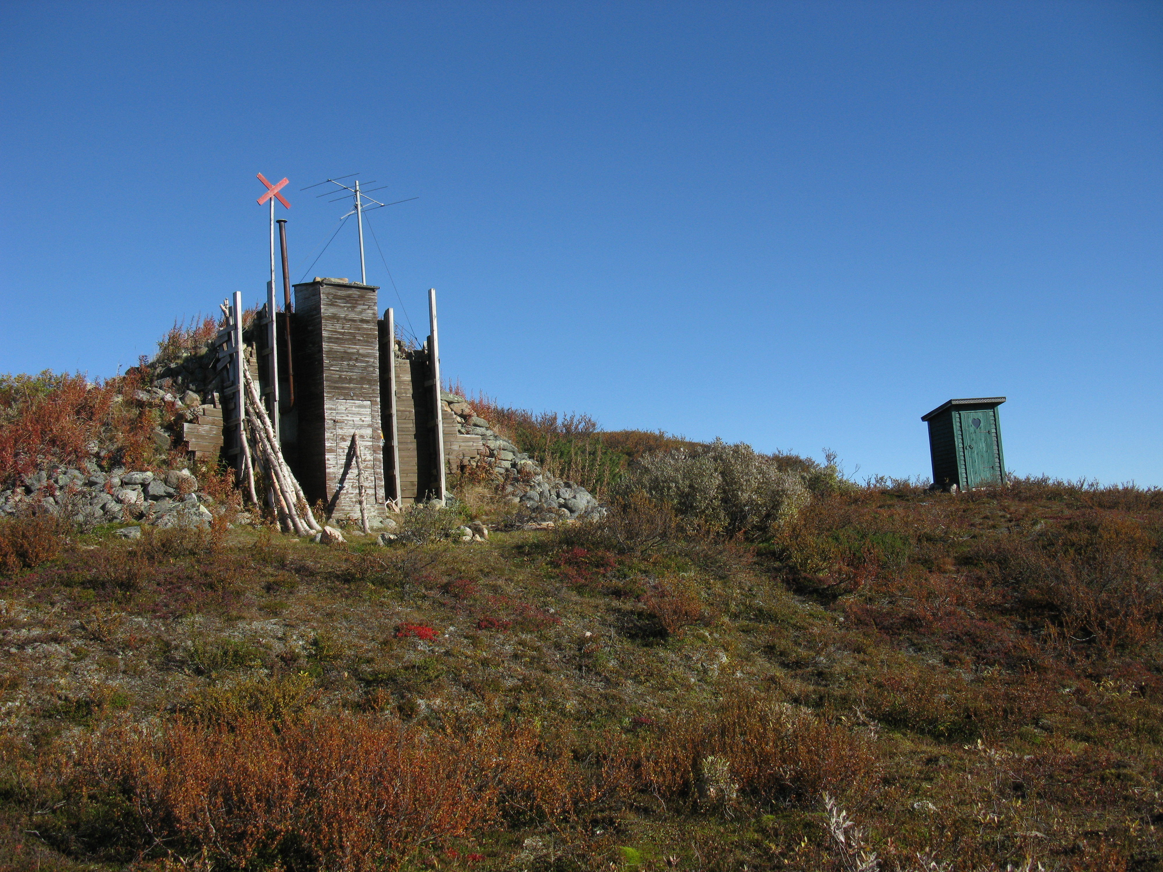 rocket range launches sounding rockets that land in a vast, uninhabited area north of the range. Throughout this area are small shelters that one can use when a rocket campaign is planned. This is one such shelter at Vassejávri. The small blue building to the right has a heart on the door which is a traditional Swedish way of telling people that it's an outhouse.